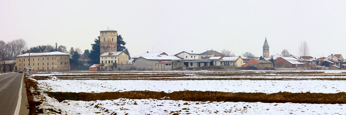 Winter view of Mandello Vitta, Novara, Italy